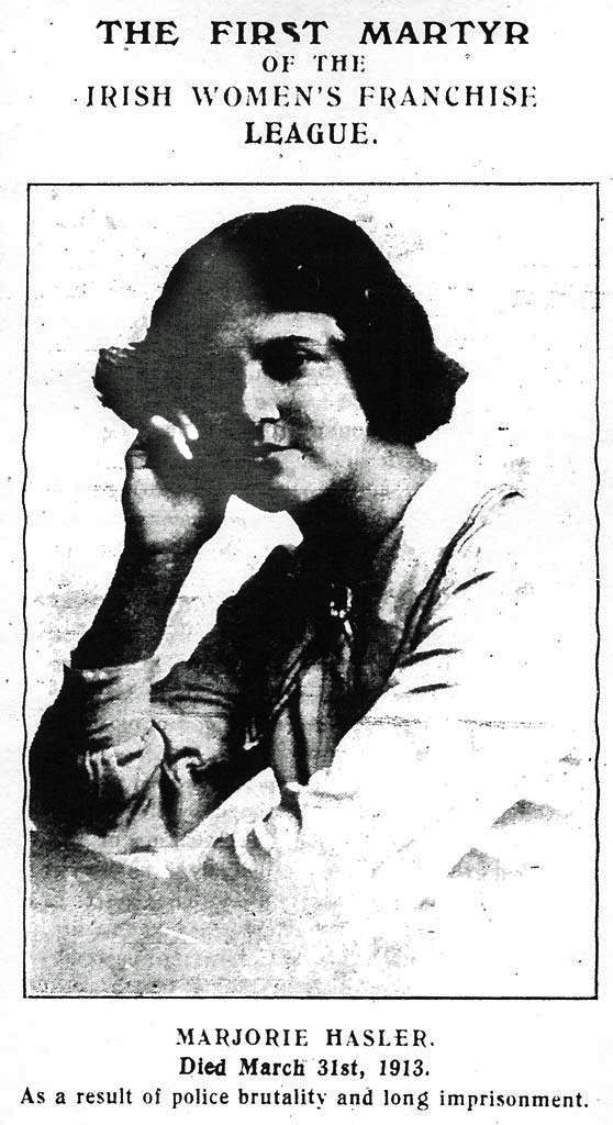 graphic of Marjorie Hasler, First Martyr, The Irish Citizen, 5 April 1913